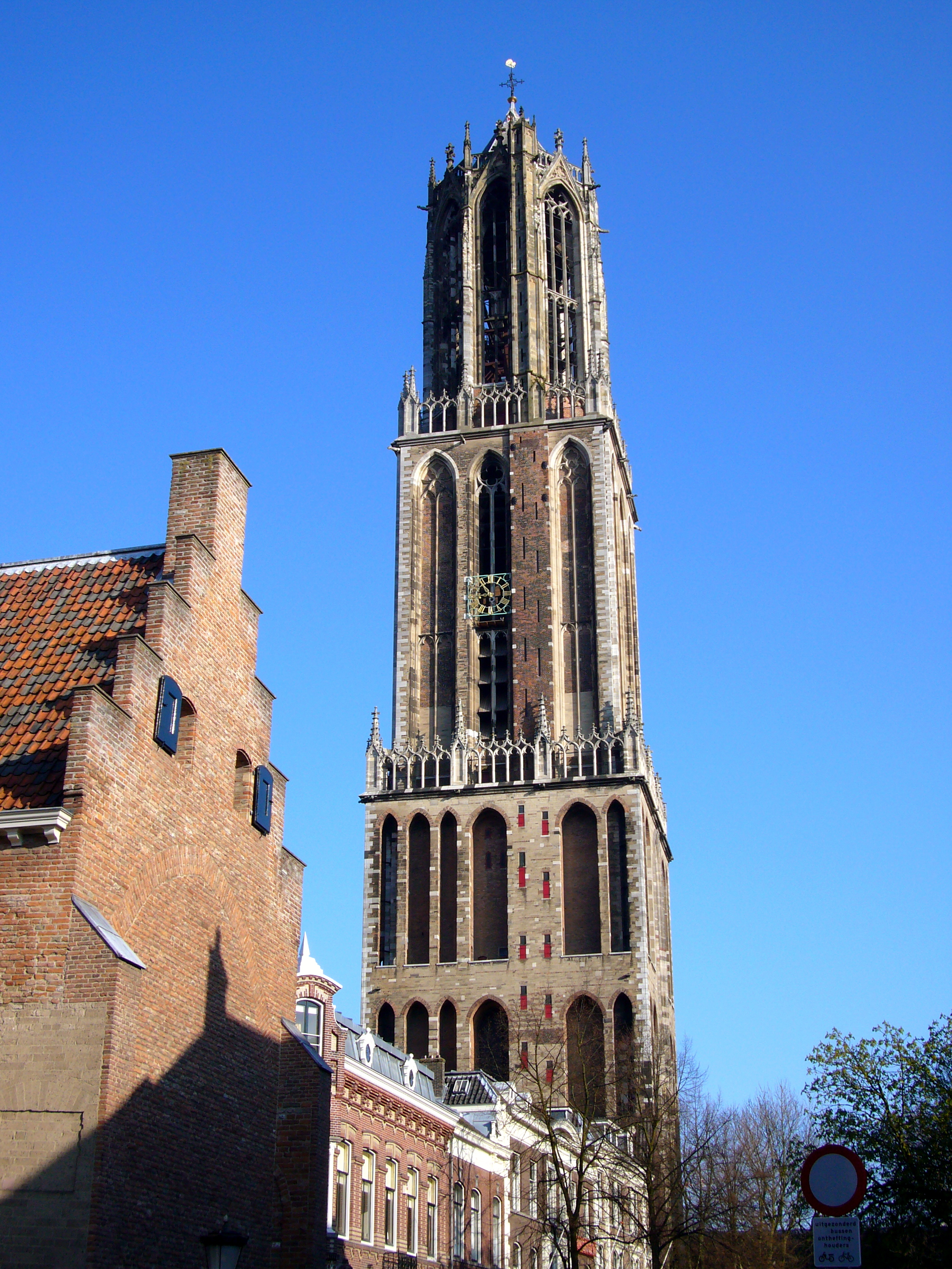 Domtoren Dom cathedral tower Utrecht